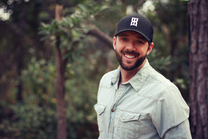 Image of country singer Buddy Brown